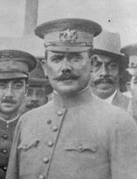 Cropped picture of Álvaro Obregón, former president of Mexico.